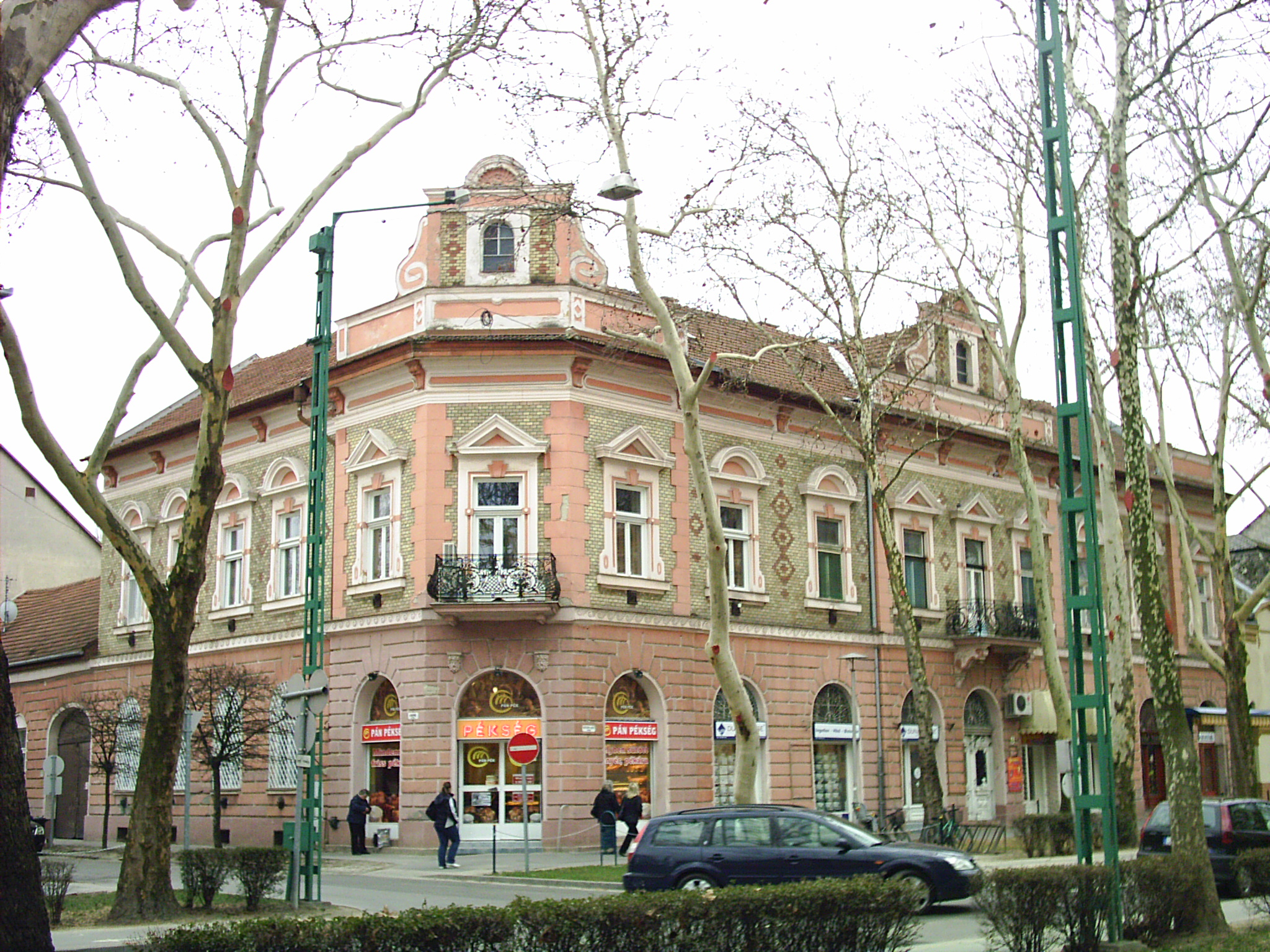 Former house of Lajos Kiss, Kiskunfélegyháza, Kossuth street, built around 1899.